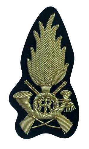 Hard cap insignia of Guardia di Finanza (Italian finance police).